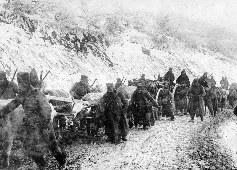 THE RETREAT OF THE SERBIAN ARMY TO ALBANIA, 1915 (Q 52272) Serbian heavy artillery crossing the Babouna River in Macedonia during the retreat to the Adriatic Sea coast. Copyright:© IWM. Original